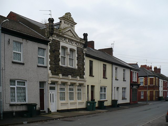 Courtybella Terrace, Pillgwenlly Now a residential property, Cumberland House was erected in 1891.